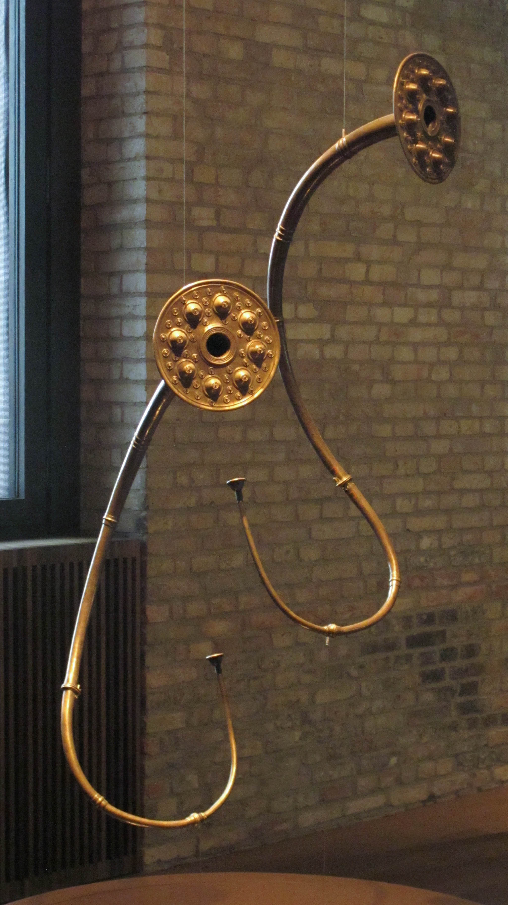 Lurs. Bronze Age blowing horns. 9-8 century BC. Copy, bronze. Garlstedt, Lower Saxony. Original taken as war loot to Russia at the end of War World II. Visitors can hear, in the museum, the immense sound volume of this instrument. Neues Museum, Berlin.